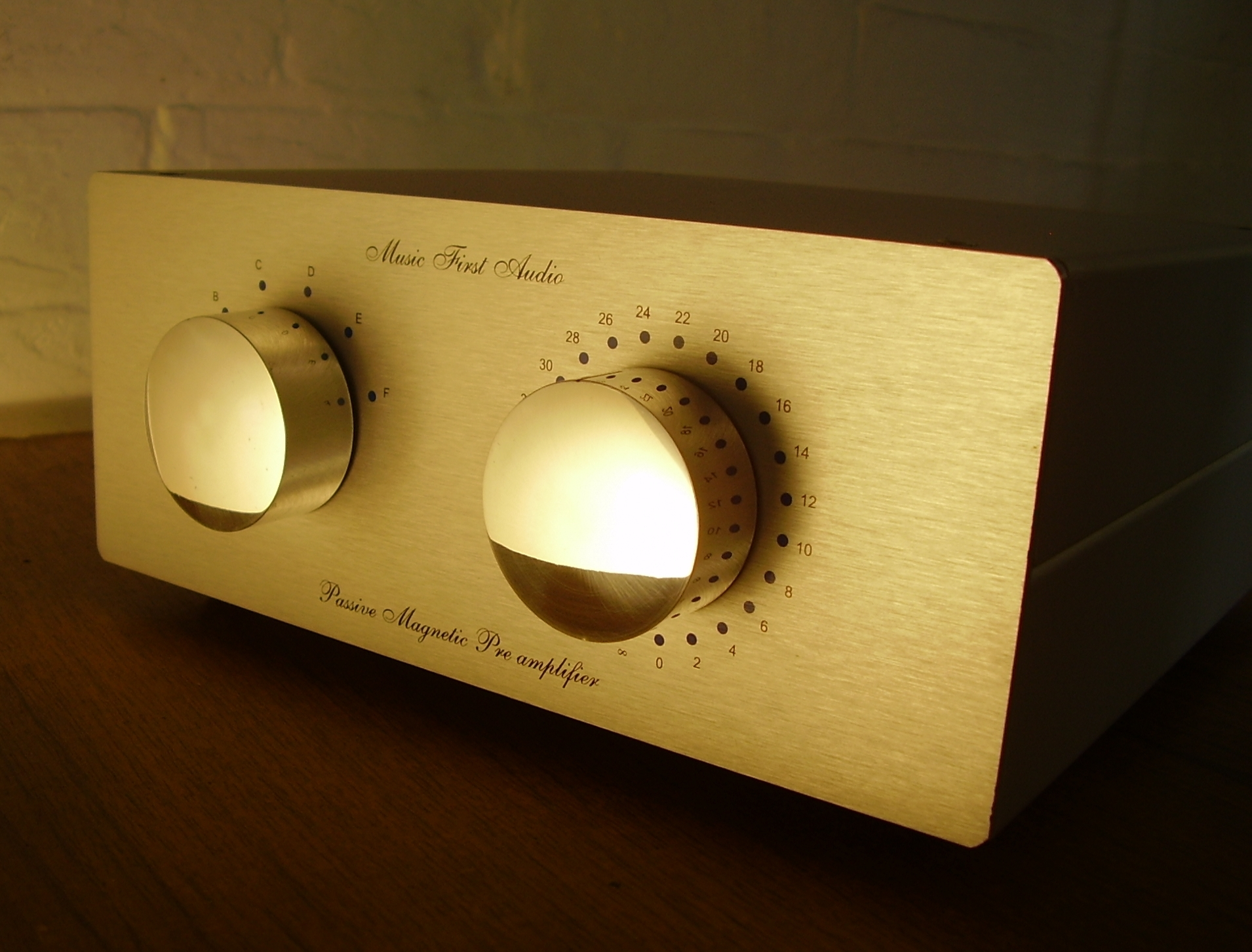 The Music First Audio Classic Preamplifier